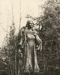 Sculpture of Mary Jemison by Bush-Brown, Henry K. 1857-1935, donated to the Metropolitan Museum of Art Library in 1910 (so published and out of copyright)